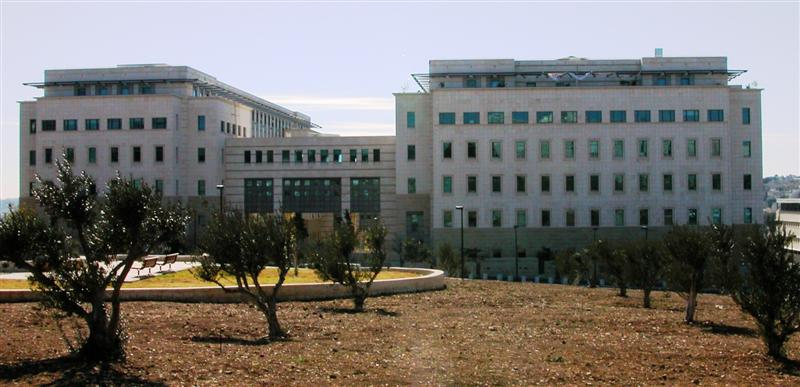 The Israeli Ministry of Transport.